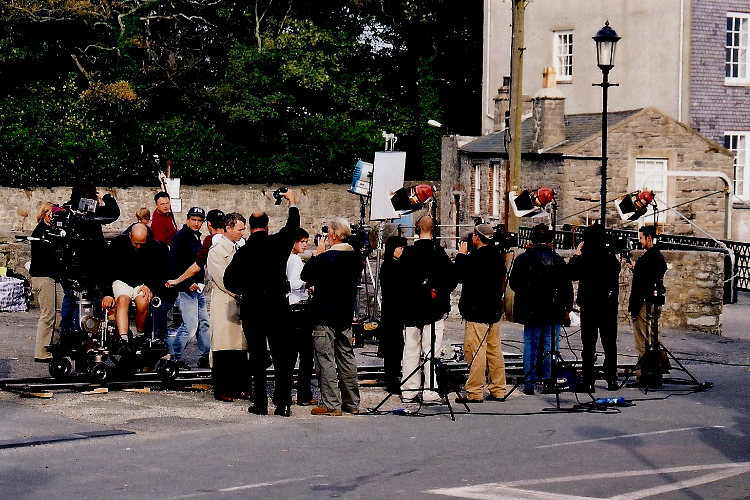 Filming a BBC movie near Castle Rushen, Castletown, Isle of Man